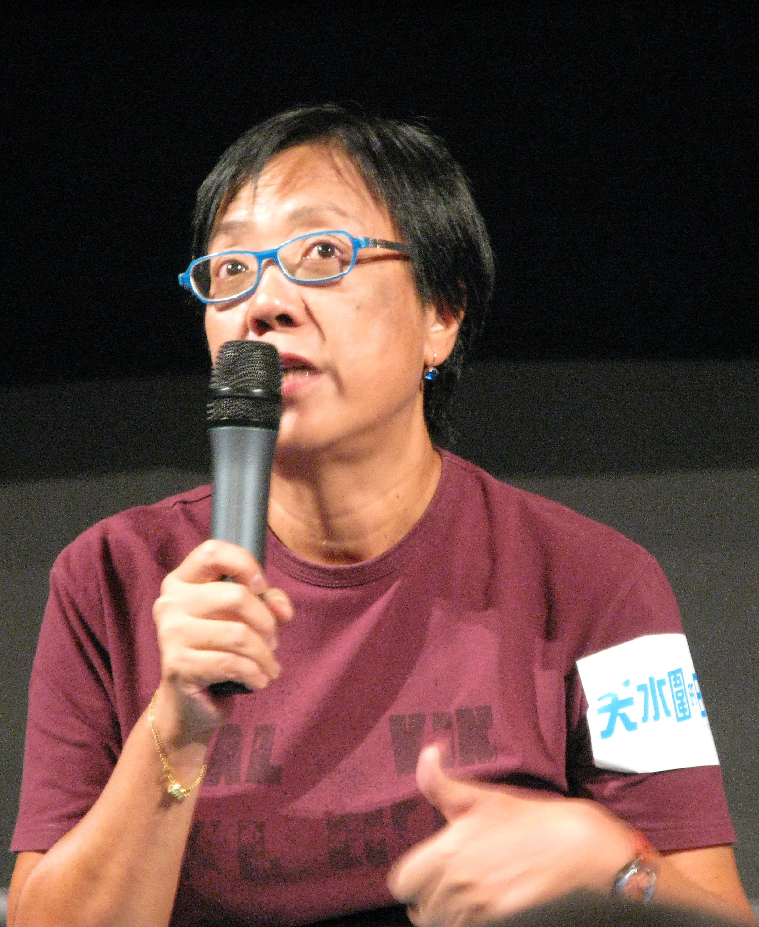 Hong Kong director Ann Hui answers questions following a screening of her latest film "The Way We Are" at the Broadway Cinematheque in Yau Ma Tei.